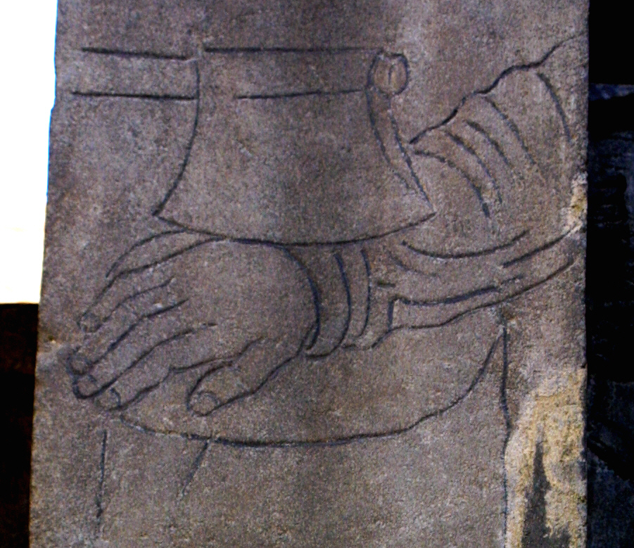 the Bamberg Stations of the Cross